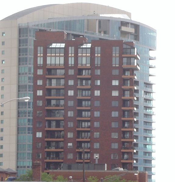 Miranova Corporate Center